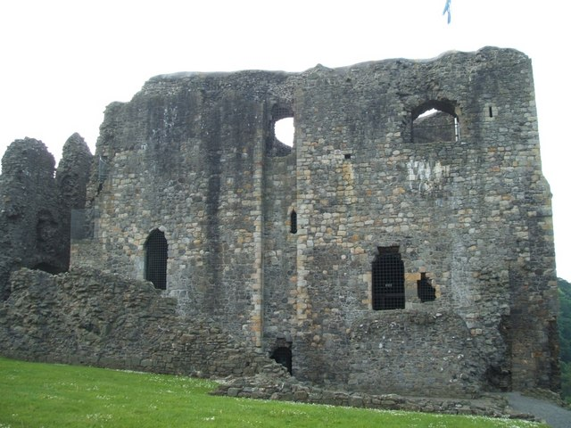 Dundonald Castle View from North East